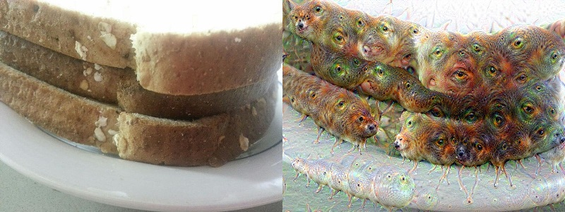 This is an example illustrating how the Deep Dream computer program renders the image of the Toast sandwich via an Artificial Intelligence algorithm to the image on the right.